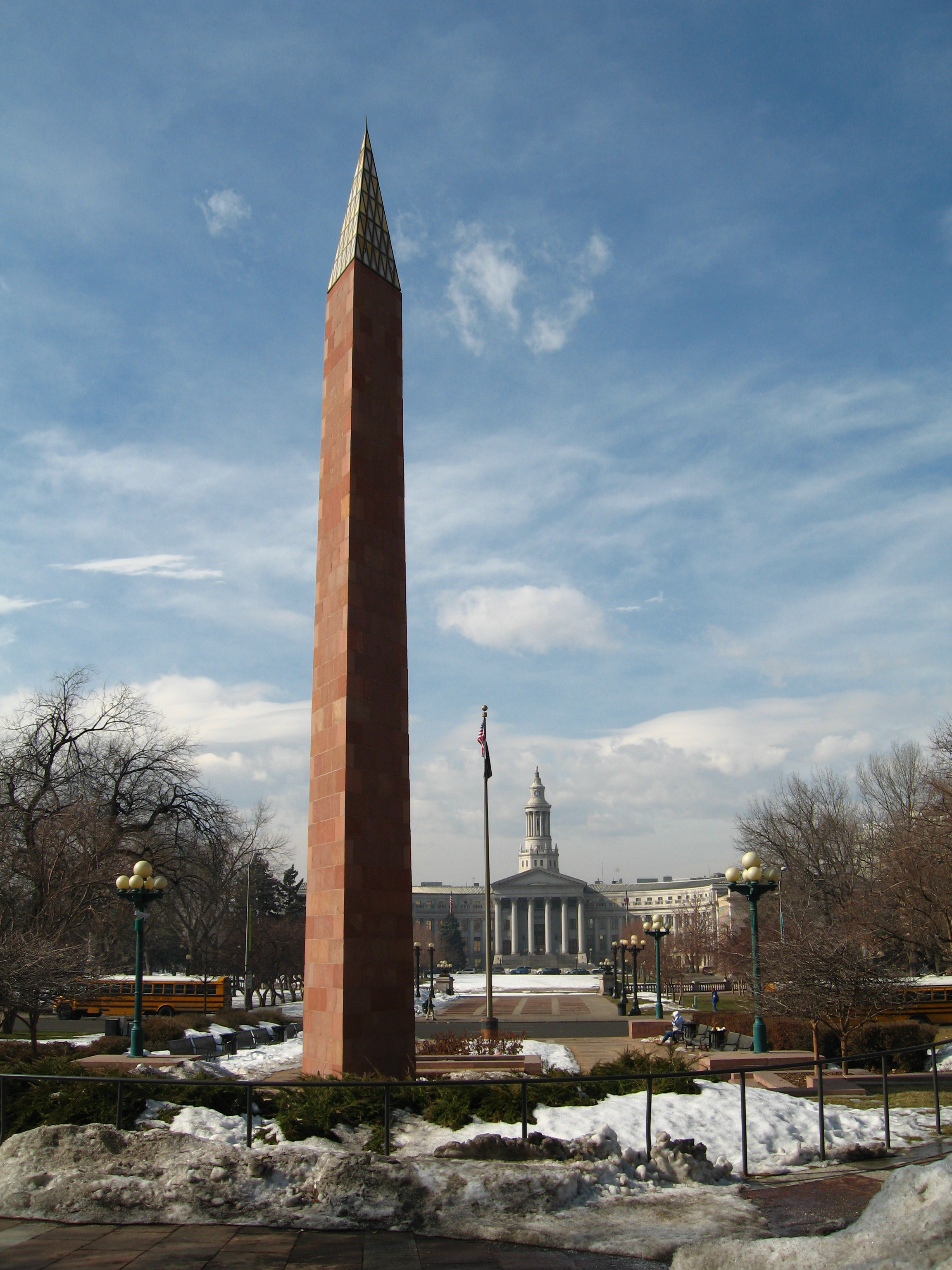 Vietnam War Memorial Obelisk with Denver City and County Building in background, Denver, Colorado, USA